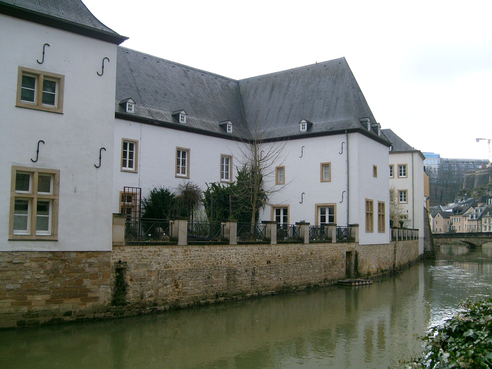 Backside of the National Museum of Natural History along the river Alzette, Luxembourg